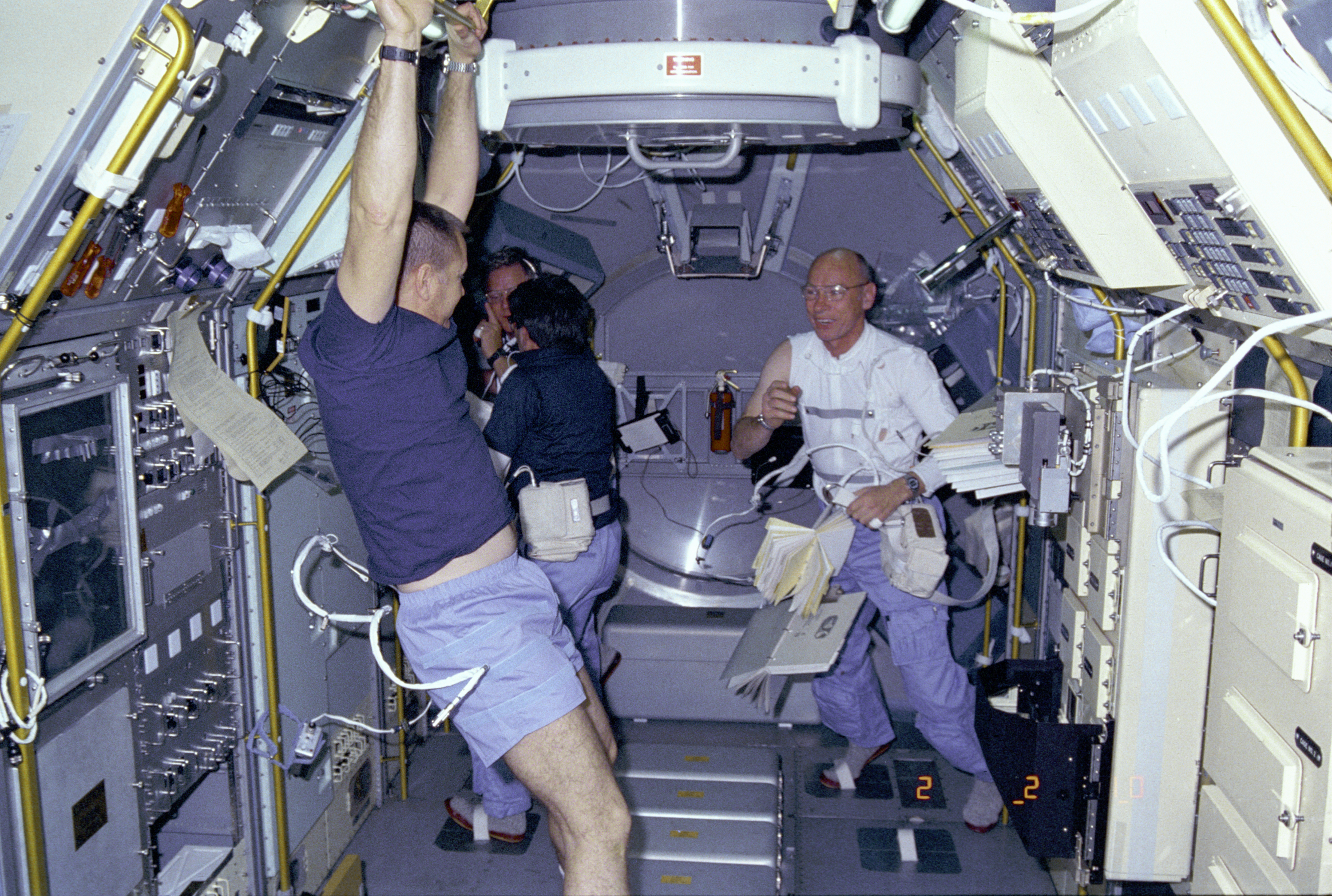 Crew members of the STS-51-B (Spacelab-3) mission inside the Spacelab laboratory module aboard the Space Shuttle Challenger. Left to right: STS-51-B Commander Robert F. Overmyer; Mission Specialist Don L. Lind (obscured); Payload Specialist Lodewijk van den Berg (obscured); and Mission Specialist William Thornton. NASA photo MSFC-8901494 in public domain.